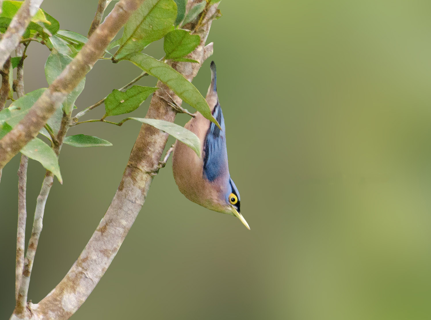 Sample melted background using Photoshop